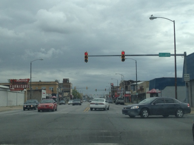 The heart of Midtown Gary looking south at 15th Avenue & Broadway